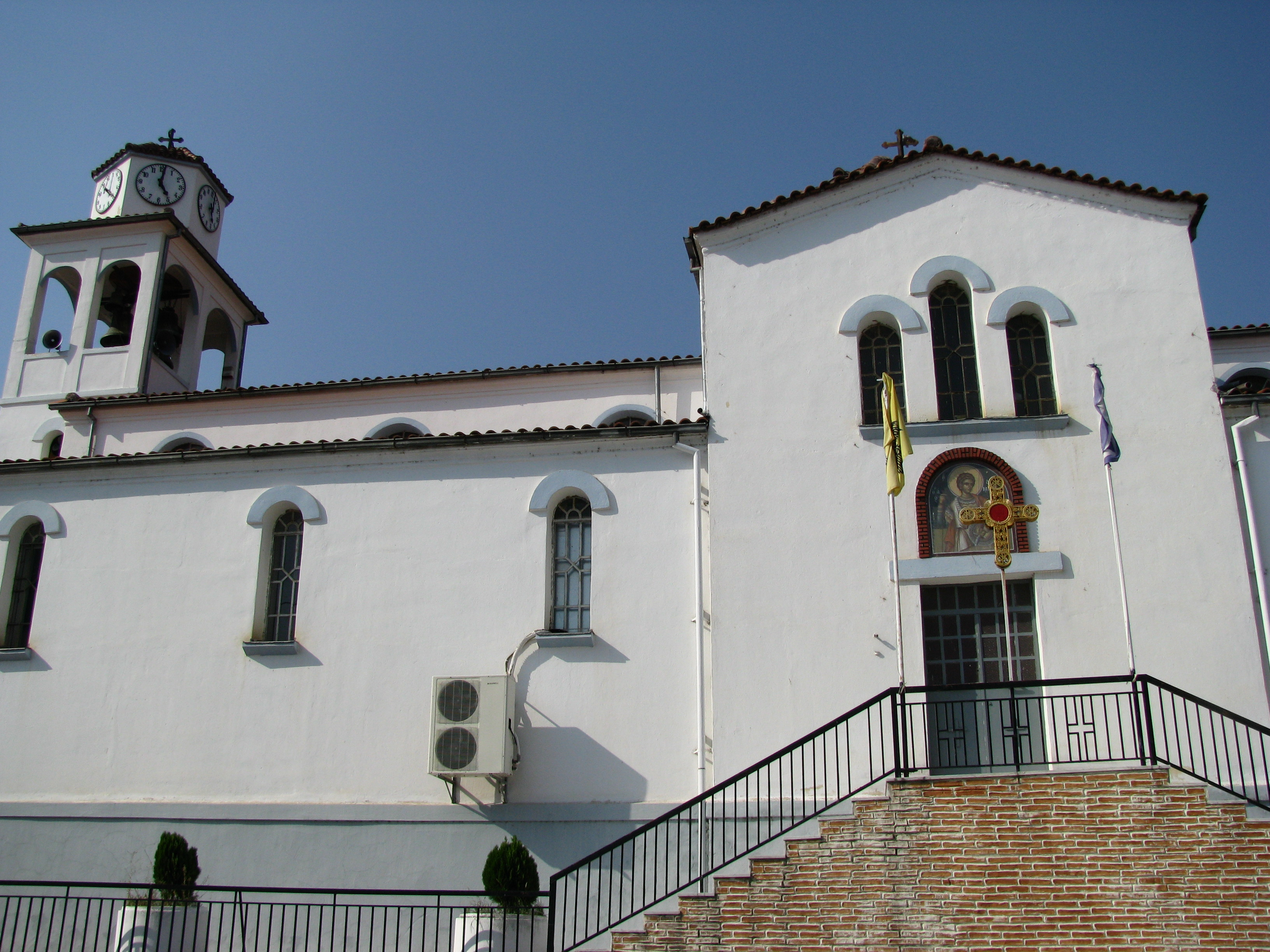 Church in Village of Promahi, Pella Prefecture, Macedonia, Greece.